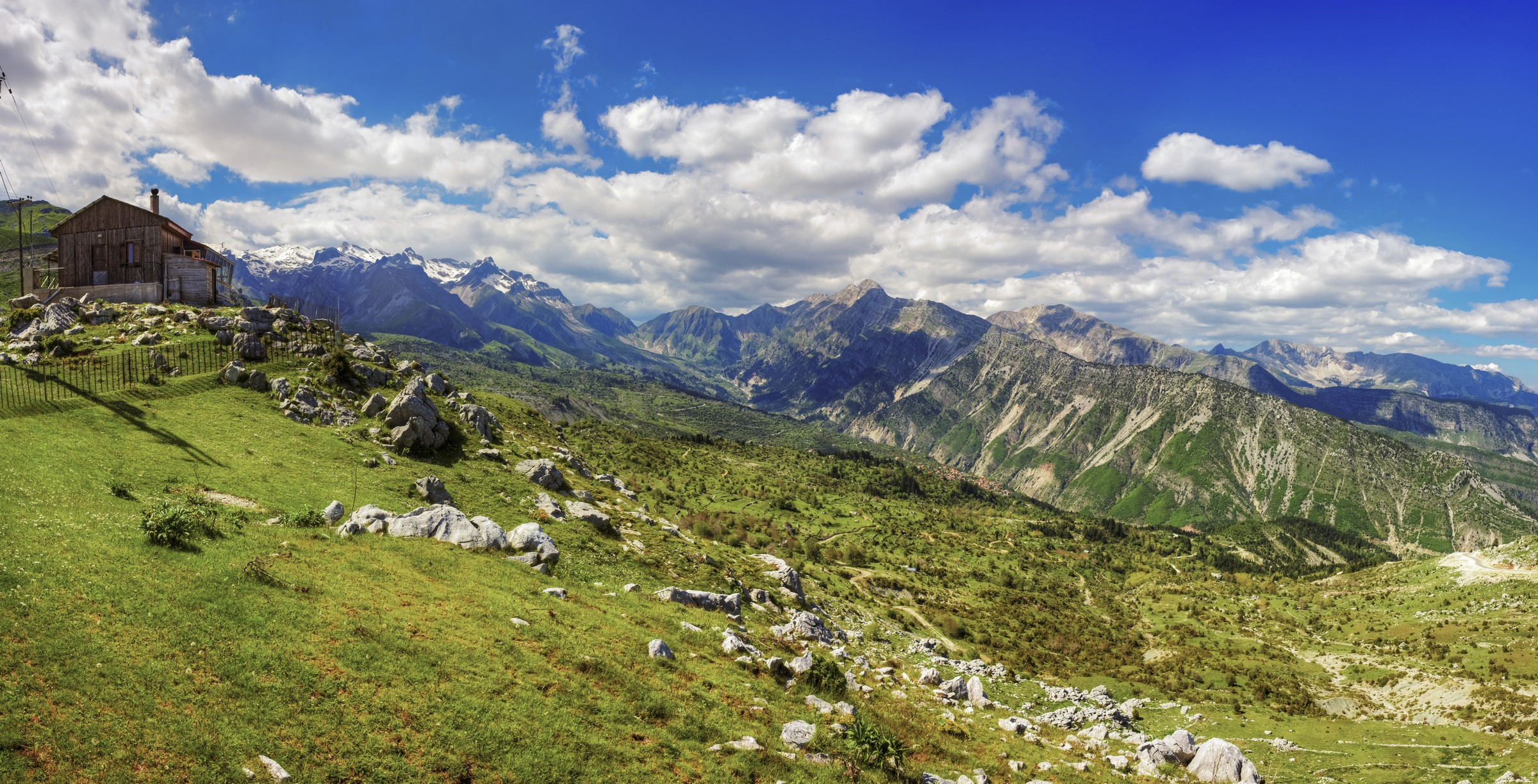 This is a photography of Natura 2000 protected area with ID GR2110002